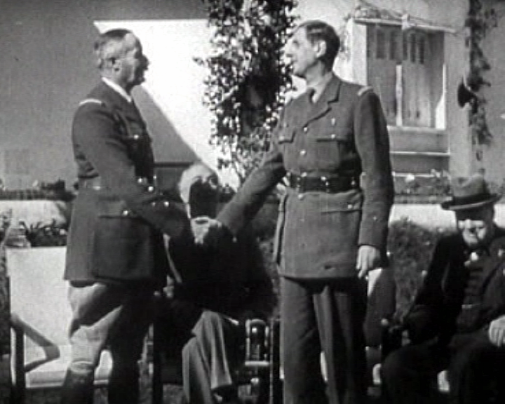 Free French Force leaders, General Charles de Gaulle shaking the hand of General Henri Giraud in front of Franklin Roosevelt and Winston Churchill (Casablanca Conference January 14th 1943). Screenshot taken from the 1943 United States Army propaganda film Divide and Conquer (Why We Fight #3) directed by Frank Capra and partially based on, news archives, animations, restaged scenes and captured propaganda material from both sides. Original photo taken by Sammy Shulman. See The American Presidency Project, 17: Excerpts from the Press Conference for the Society of Newspaper Editors, 2/12/43; referenced in Winston Spencer Churchill: Defender of the Realm, 1940-1965, William Manchester, Paul Reid